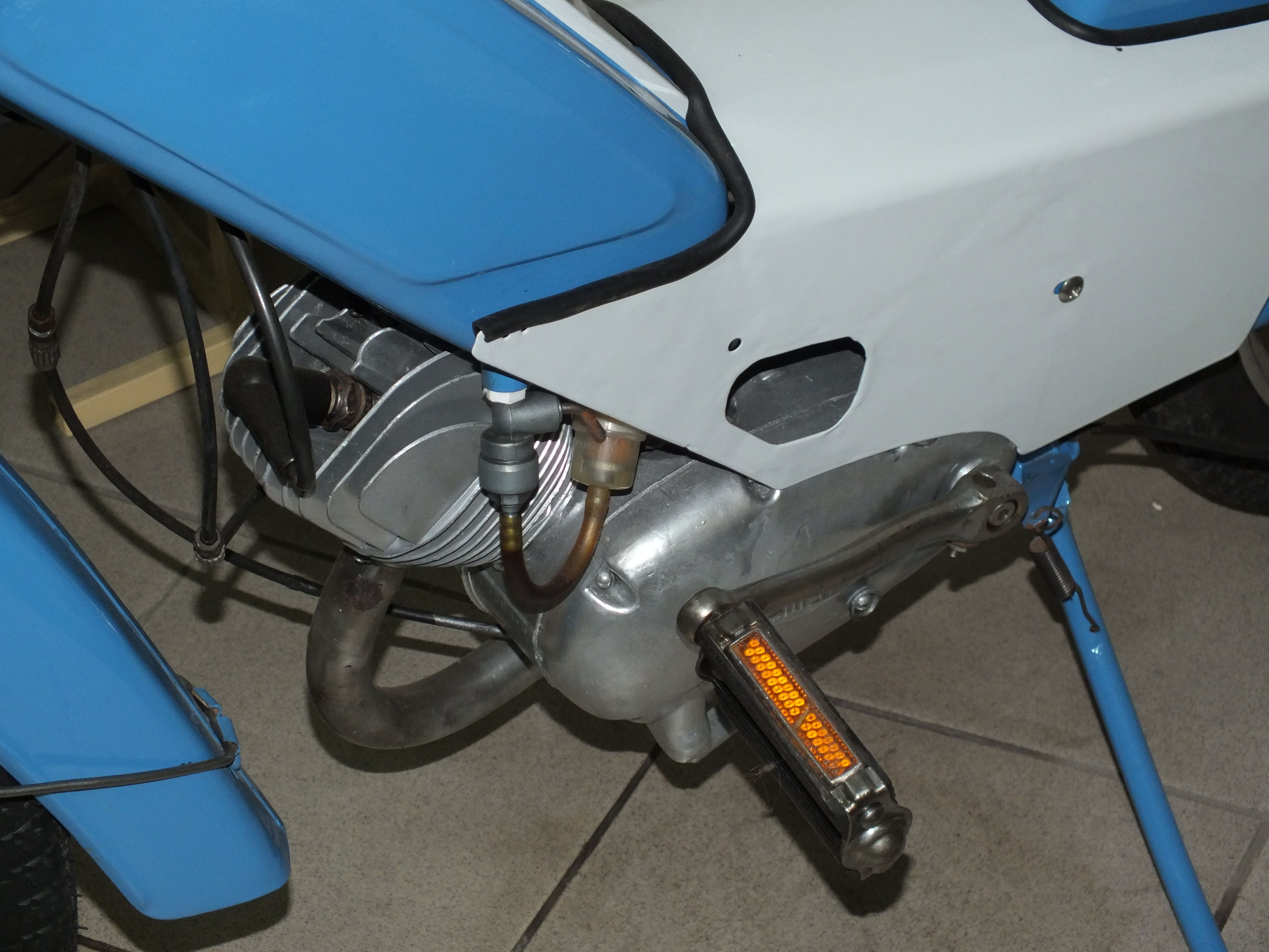 Motorcycles of Russia